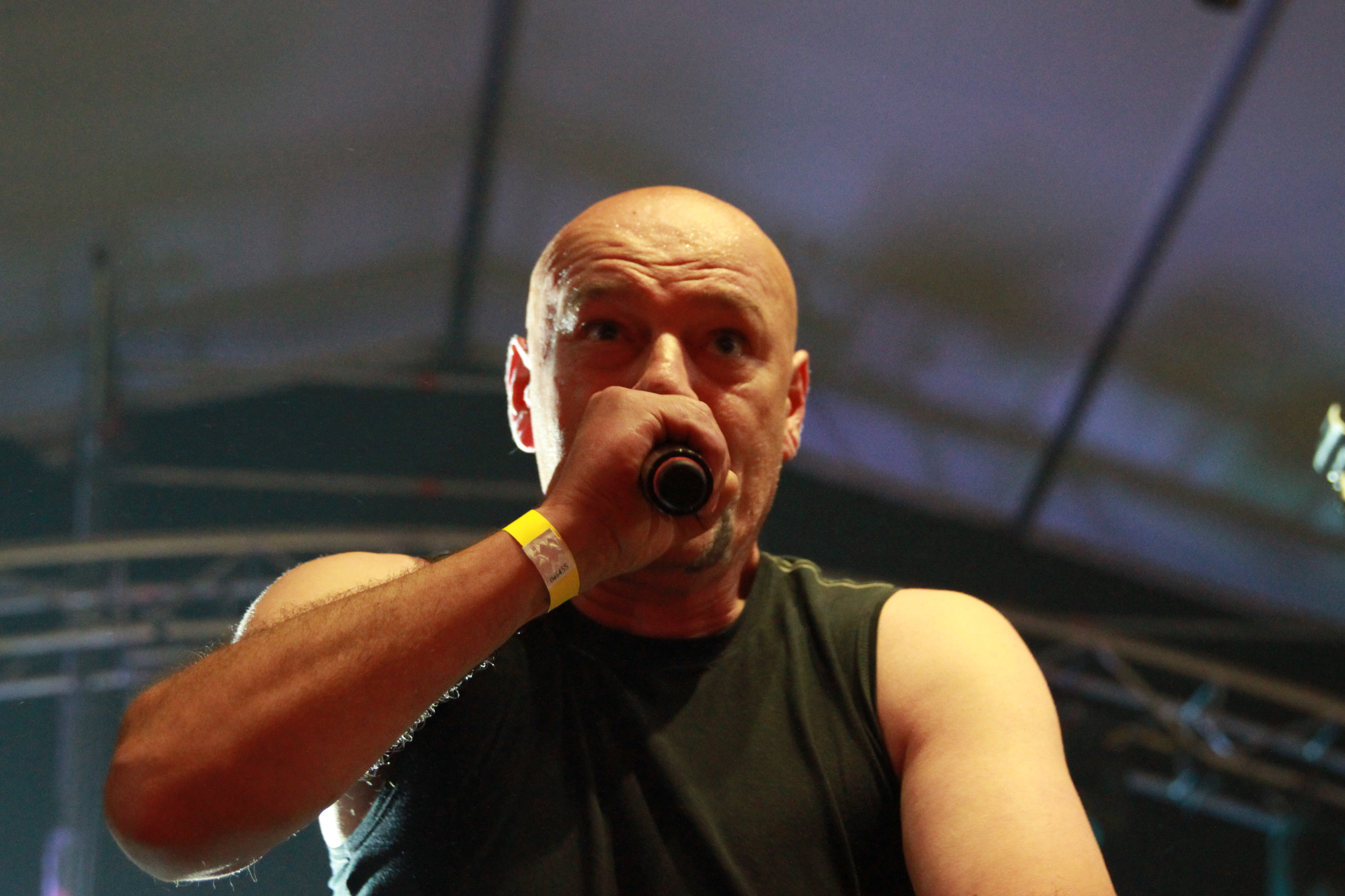 Przystanek Woodstock in 2015.